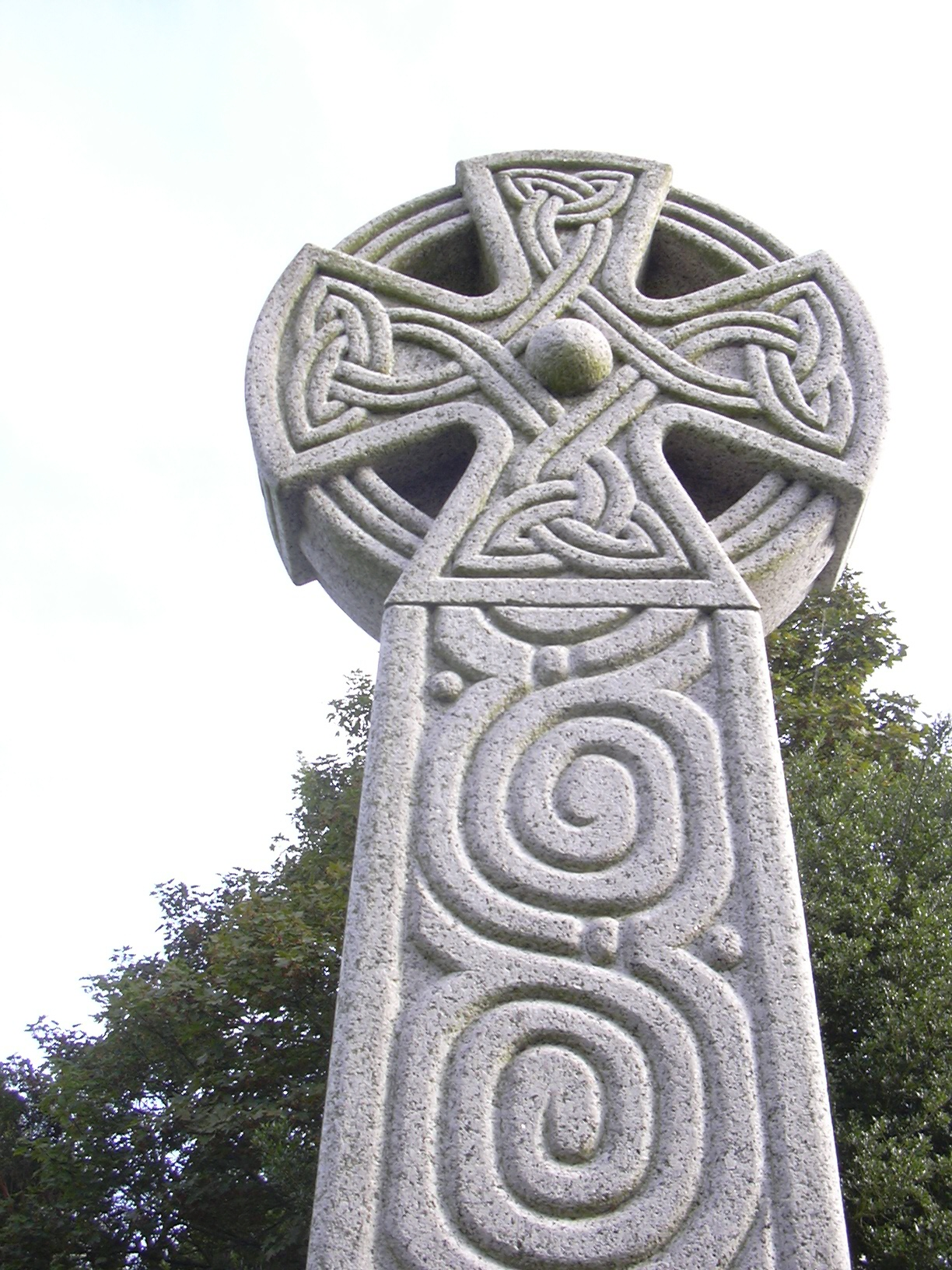 War Memorial in the Churchyard of Constantine in Kerrier. My own photograph Vernon White (talk) 23:31, 15 March 2007 (UTC) (nb, uploaded by User:Vernon White - I just reuploaded it with it turned the correct way up) Neil (not Proto ►) 23:54, 15 March 2007 (UTC)